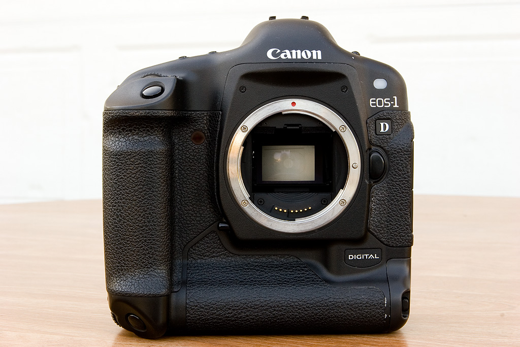 This is my favorite digital single lens reflex camera because of its speed and ease of use, despite having only 4 megapixels. Purchased at the beginning of 2005.